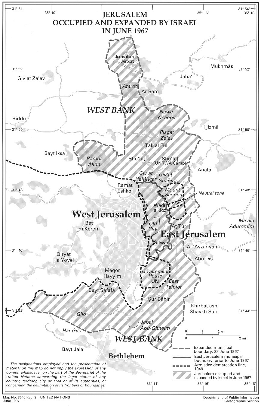 Expanded Jerusalem with municipal boundary of annexed East Jerusalem, imposed by Israel on 28 June 1967, following the occupation. UN Map No. 3640 Rev. 3, June 1997